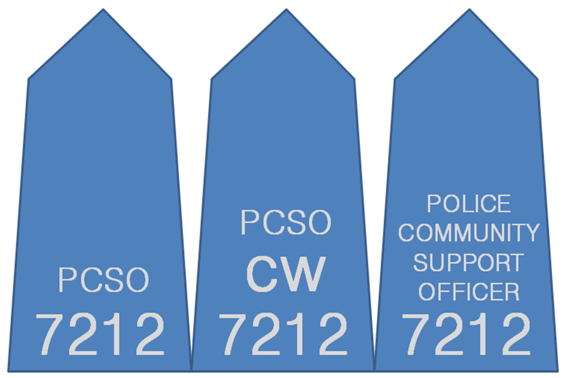 Example of variations of epaulettes used by on police uniforms in the UK, including collar number, divisional callsign and rank indicator.